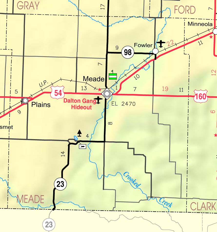 This map of Meade County, Kansas, USA, is copied at a resolution of 300 pixels/inch from the original PDF file.